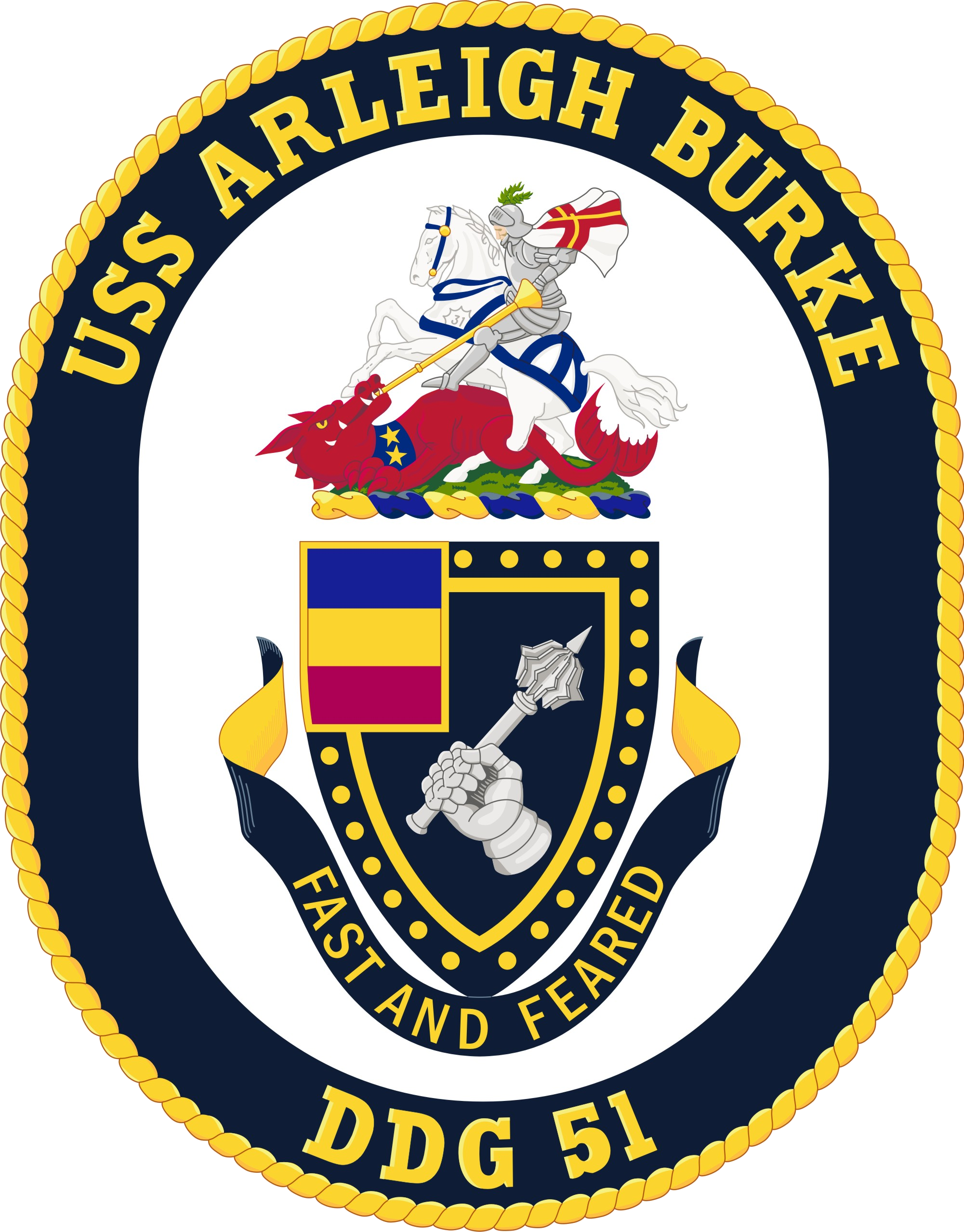 The ship's crest of the USS Arleigh Burke (DDG-51).